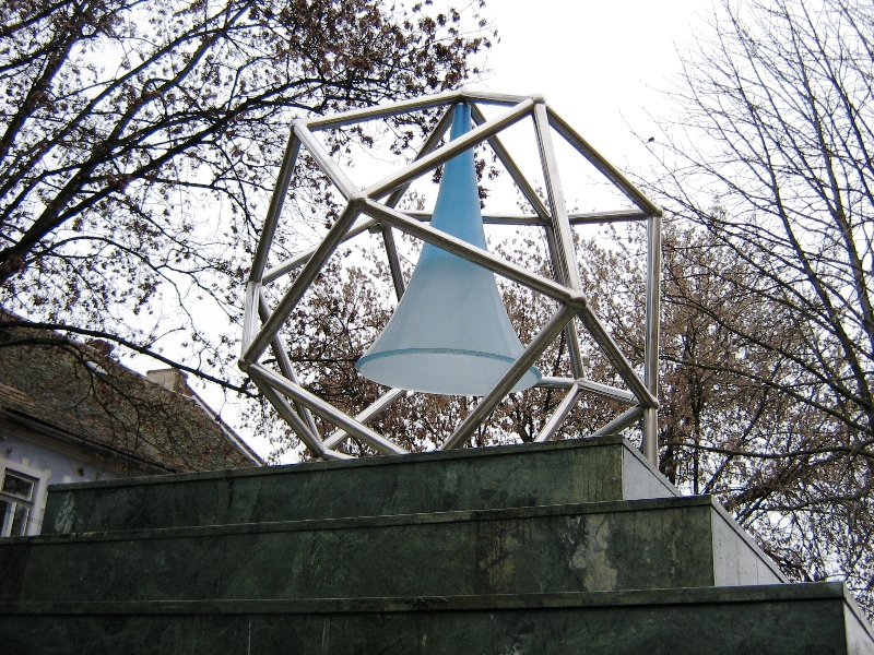 Pseudosphaera statue in Targu Mures